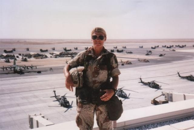 From May 1989 to May 1991, Dunwoody served as executive officer and later division parachute officer for the 407th Supply and Transportation Battalion, 82nd Airborne Division, at Fort Bragg and deployed to Saudi Arabia for Operation Desert Shield/Operation Desert Storm.